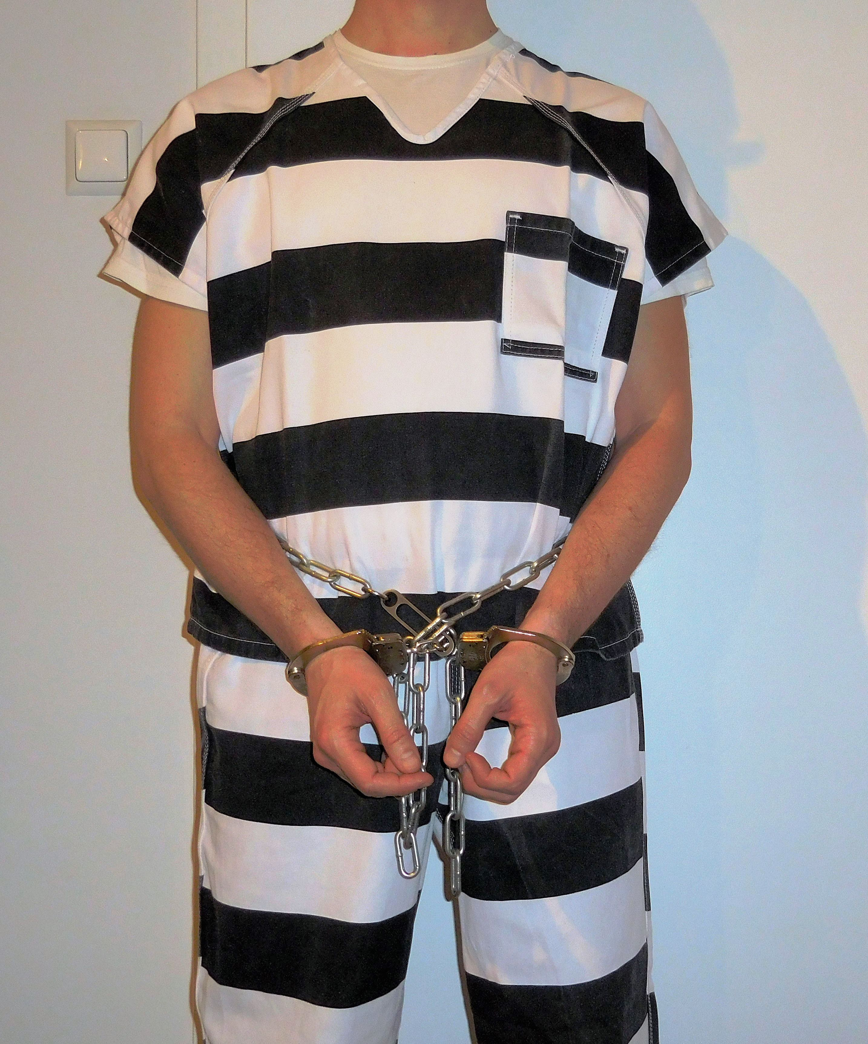 Inmate in striped uniform and Smith & Wesson restraints (model 1 "universal" handcuffs secured with a model 1840 belly chain)